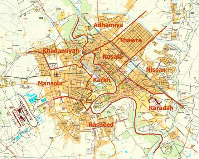 Map of the various districts in Baghdad